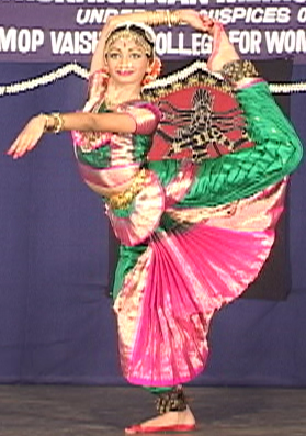 Parsvanikutttakam - one of the 108 karanas in the classical Indian dance. Demonstrated by Harinie Jeevitha